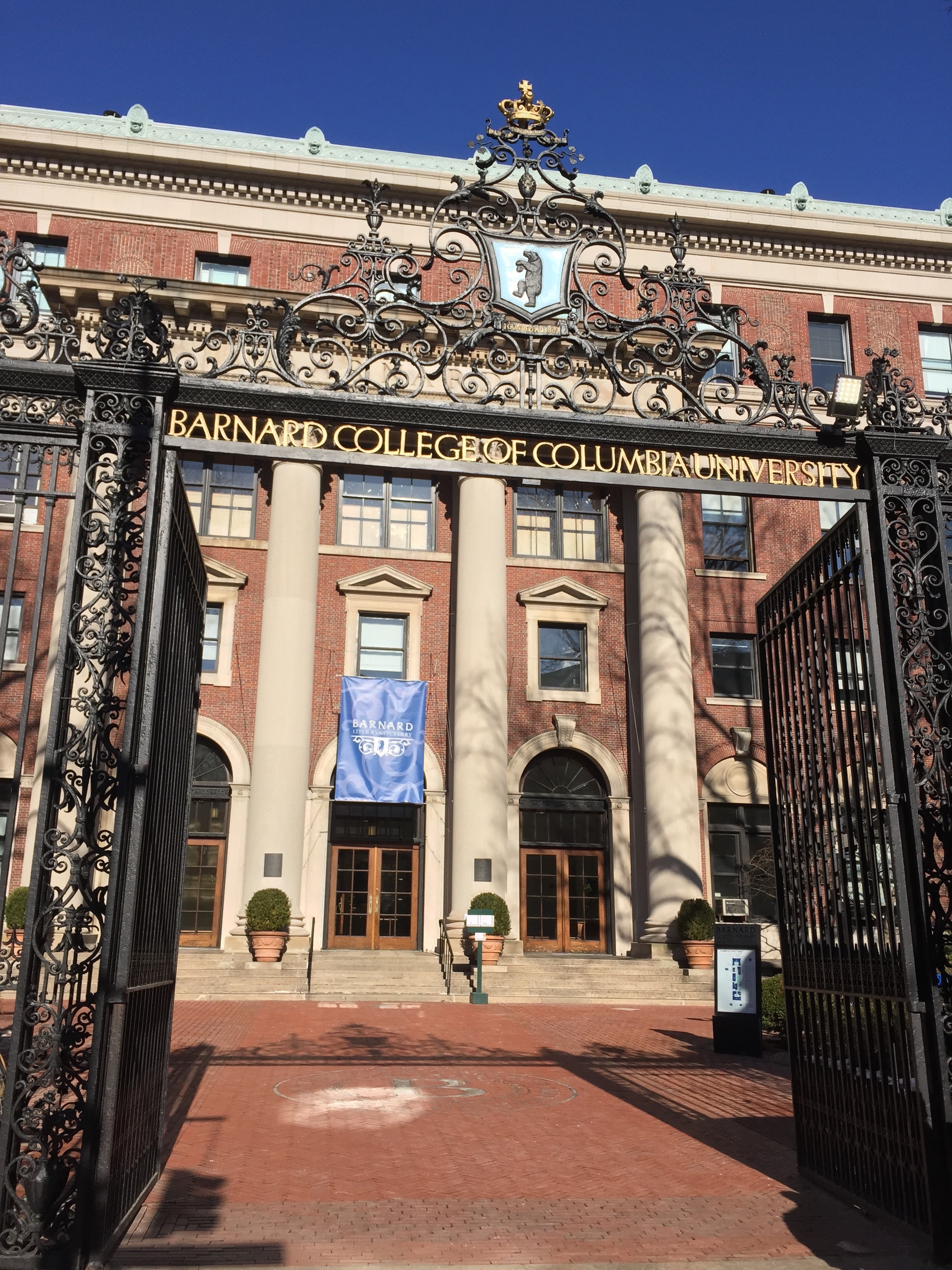 Wikipedia Day 2015 - WikimediaNYC / Free Open Culture event at Barnard College